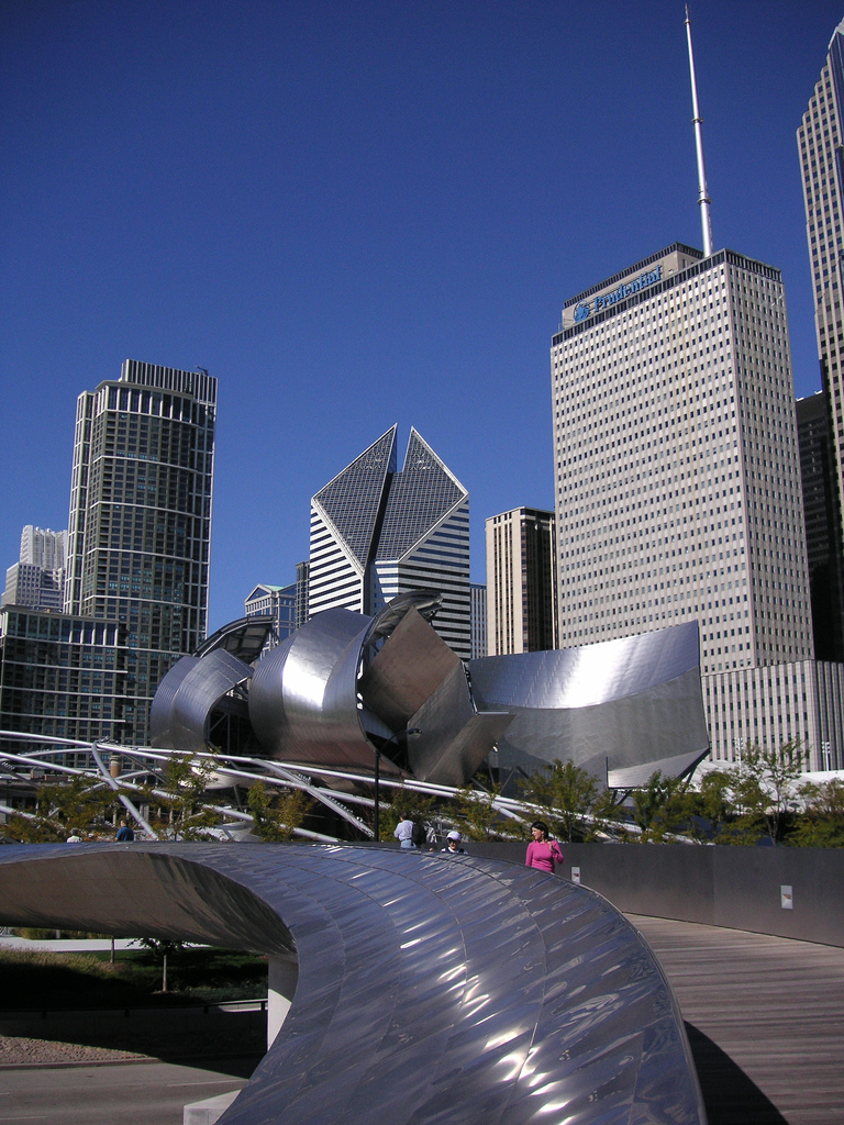 BP Pedestrian Bridge facing Northwest with Jay Pritzker Pavilion, The Heritage at Millennium Park, Smurfit-Stone Building and One Prudential Plaza in background